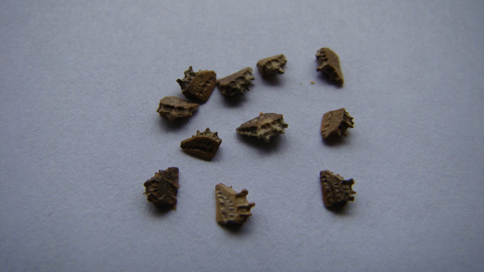 A picture of the seeds of Kallstroemia grandiflora.